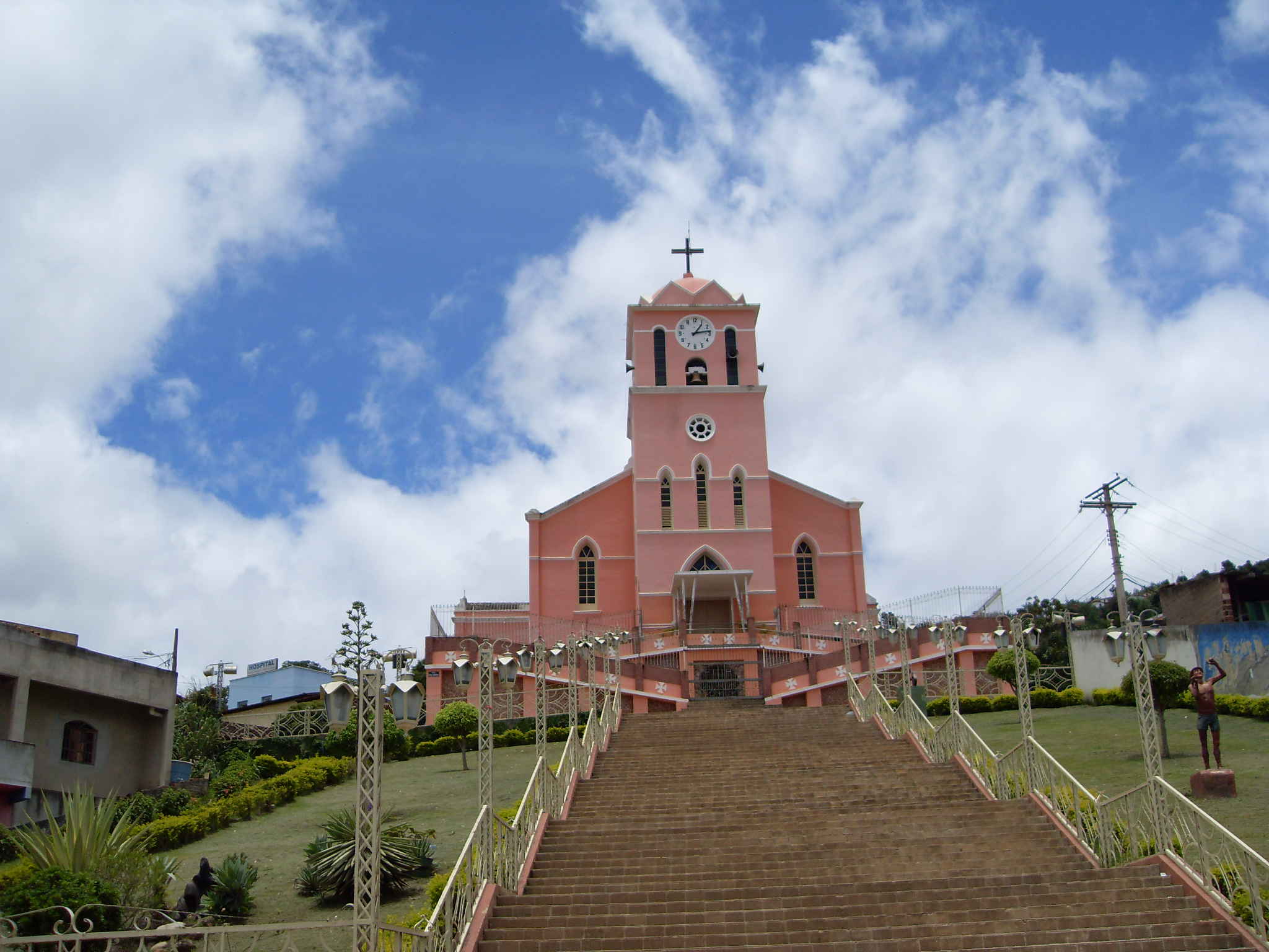 City Brazil